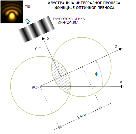 ИЛУСТРАЦИЈА ИНТЕГРАЛНОГ ПРОЦЕСА ФУНКЦИЈЕ ОПТИЧКОГ ПРЕНОСА